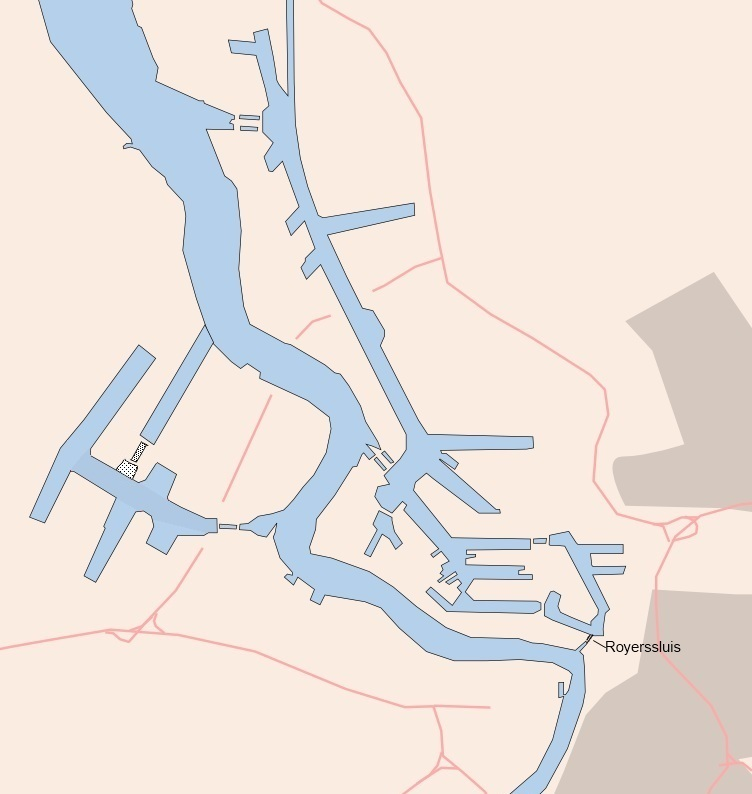 Port of Antwerp - Royers Lock